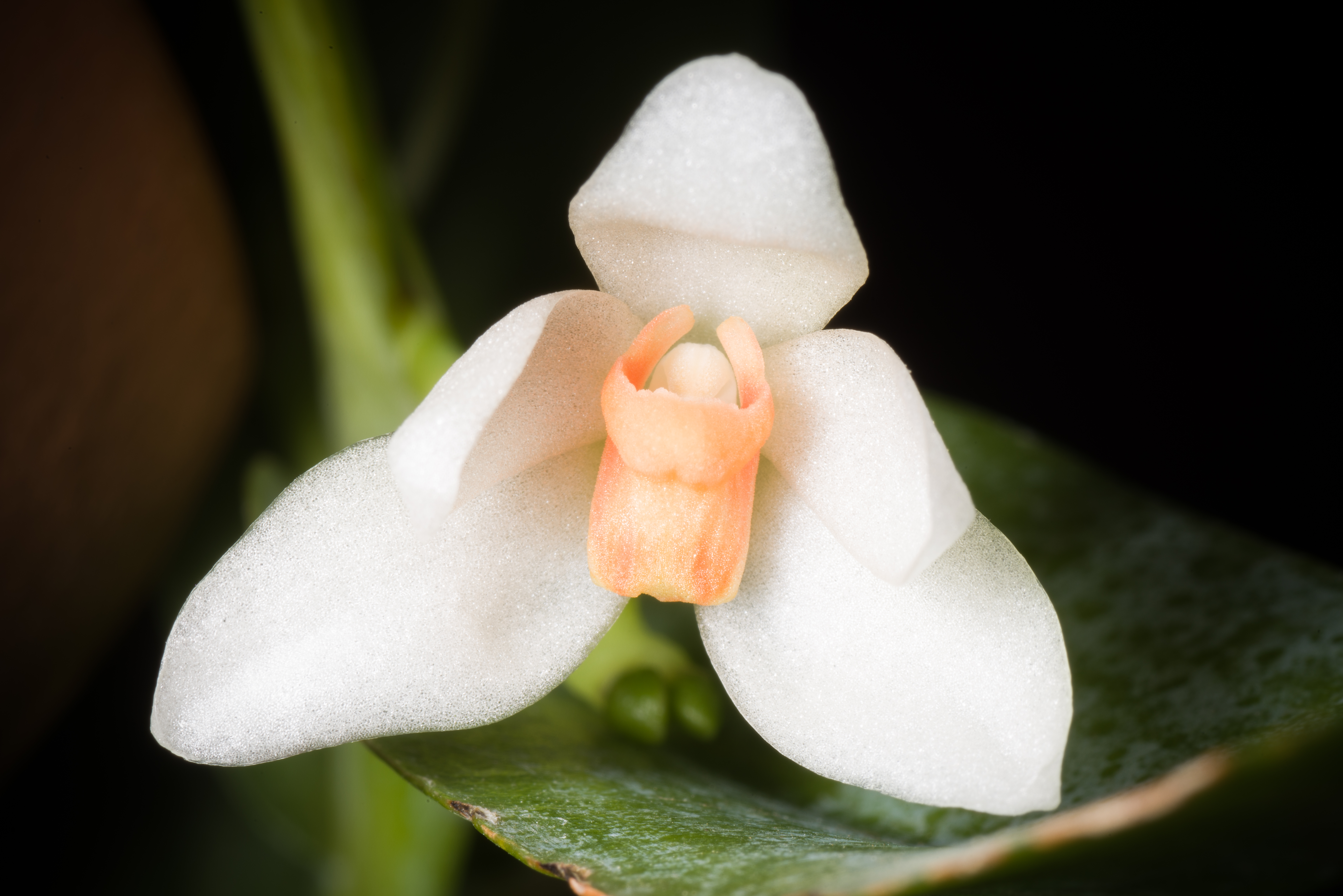 Thrixspermum pensile - (Philippines)